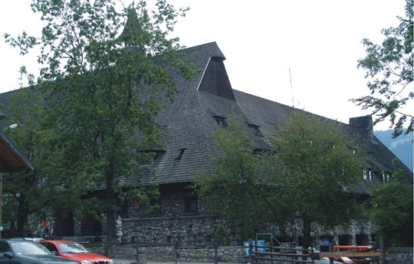 A hostel in Zakopane